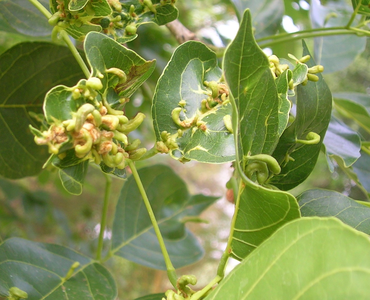 Galls on leaf of Pongamia pinnata (Millettia pinnata) from Karnataka India